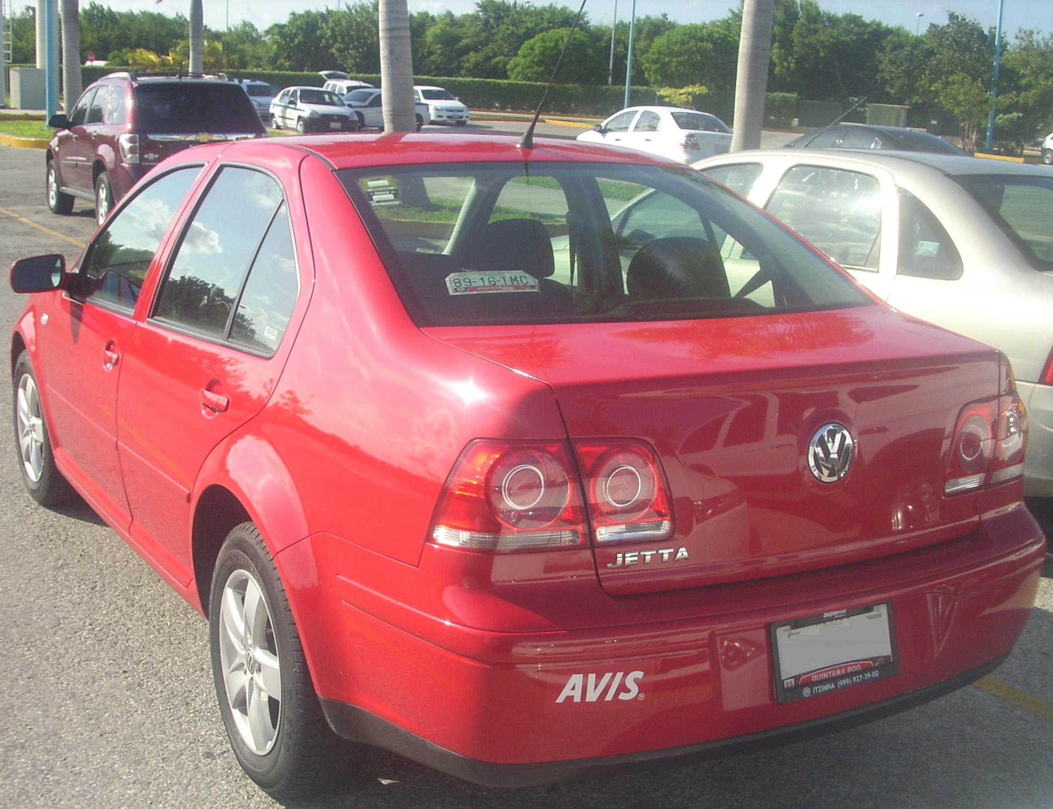 2008-present Volkswagen Jetta photographed in Cancun, Quintana Roo, Mexico.